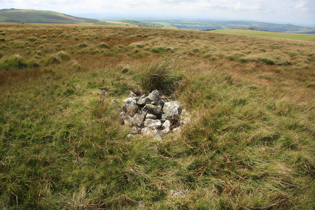 Cairn north of Roos Tor One of two cairns on the ridge north of Roos Tor, the cairns were excavated in the 1890's.